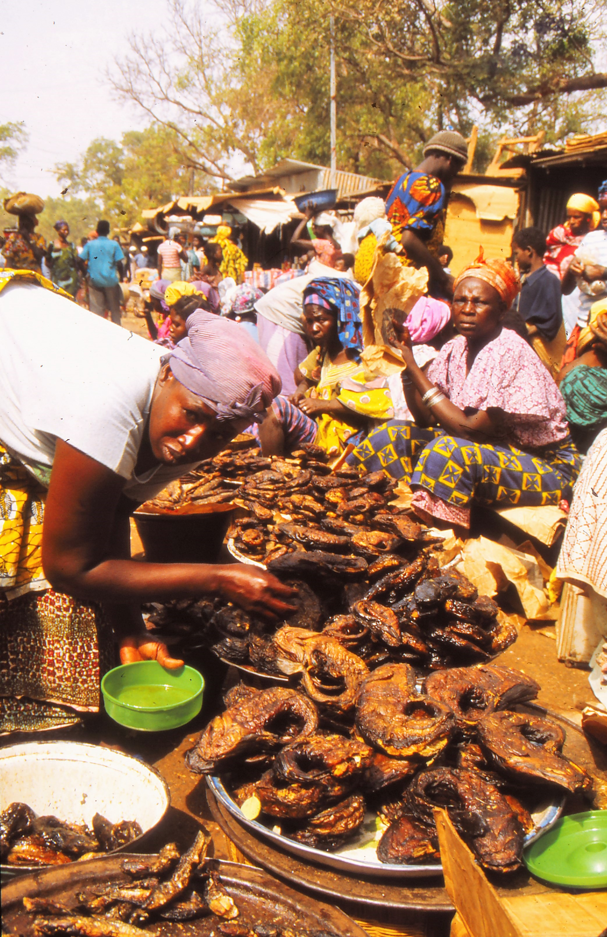 Smoked catfish at the Sangha market, Mali 1992